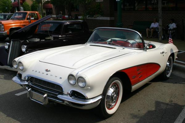 White and Red 1961 Corvette photographed by DougW of .